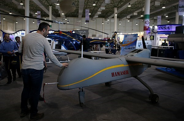 sub-scale model of Hamaseh UAV at an Iranian arms expo on Kish Island, on or around Nov 16 2016.